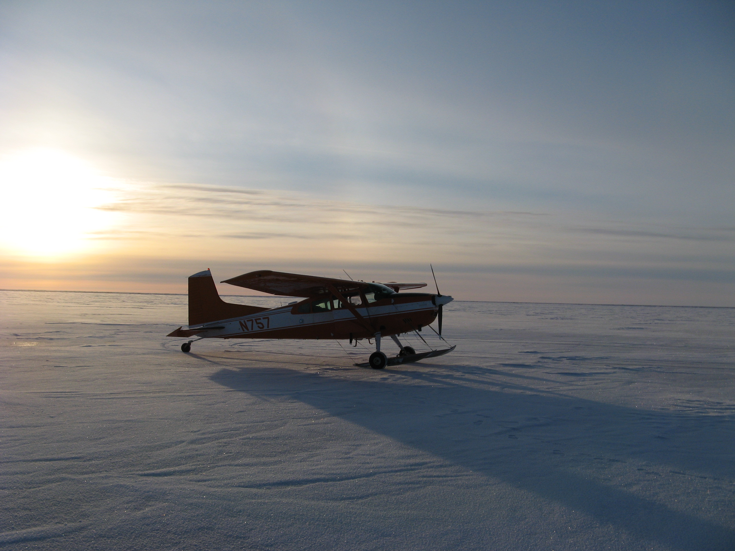 On an unnamed, frozen lake in western Alaska